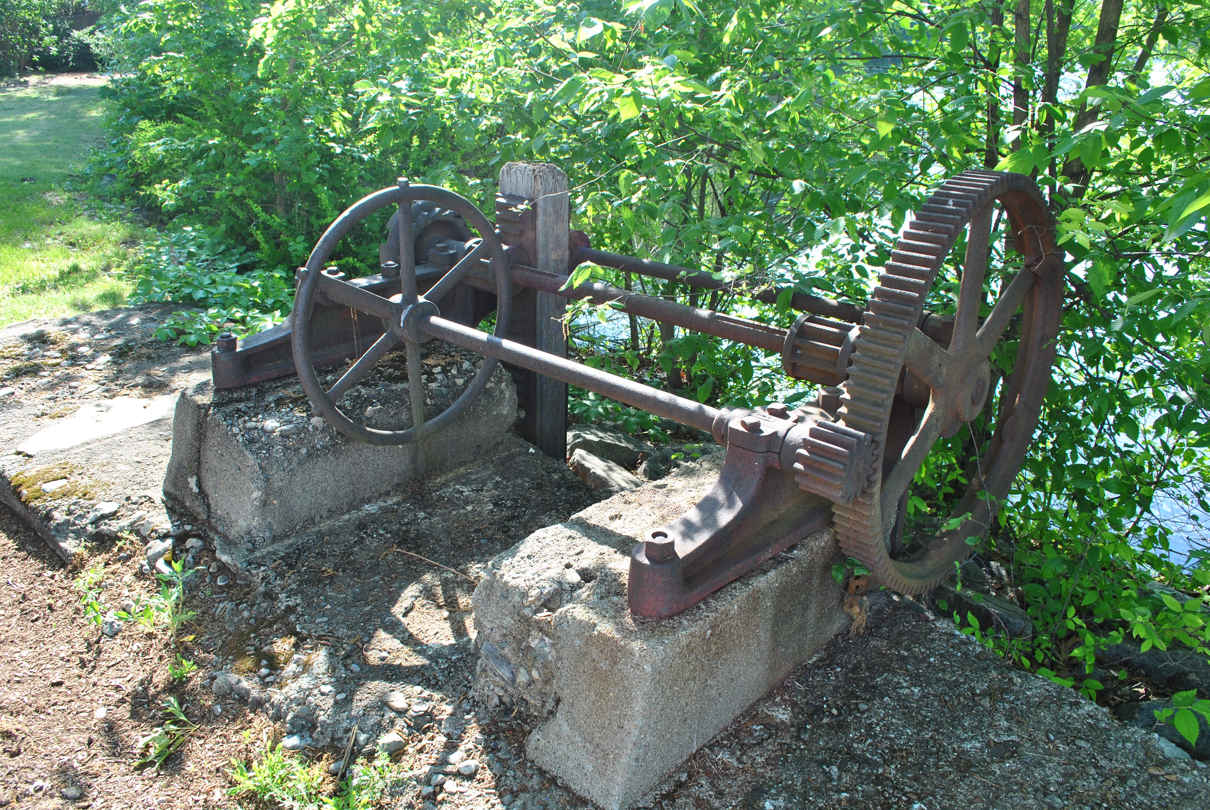 Old gears seen on the banks of Mother Brook near Centennial Dam and the Stone Mill condos